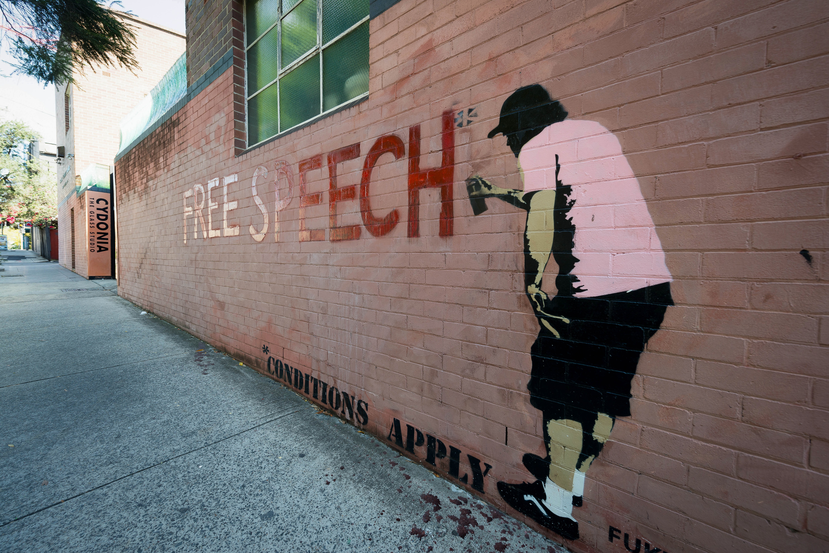 Free Speech Stencil in Enmore